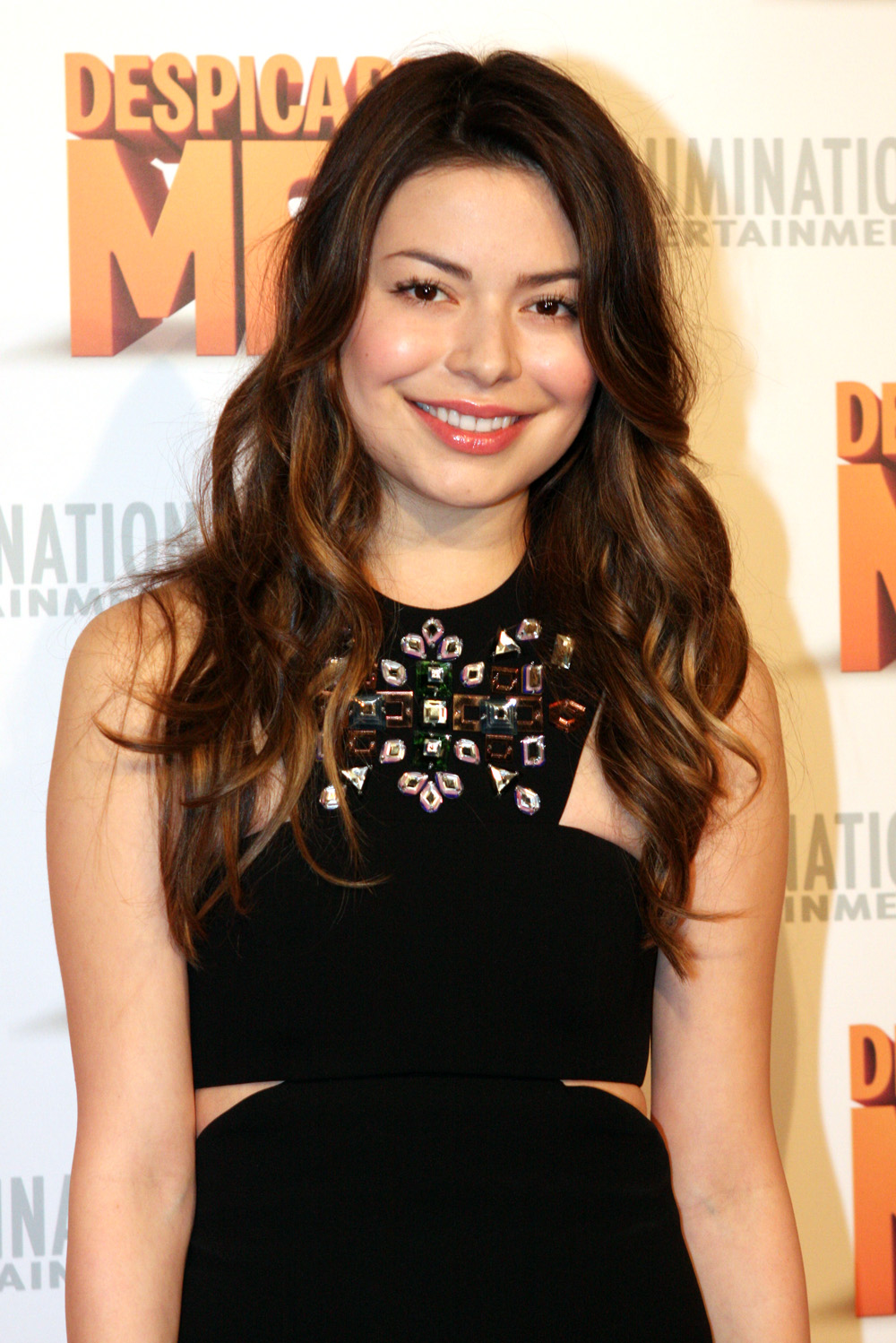 Despicable Me 2 red carpet movie premiere at Event Cinemas, Bondi Junction, Sydney, Australia... Despicable Me 2 enjoyed its Sydney, Australia red carpet premiere at Bondi Junction tonight. Gru is recruited by the Anti-Villain League to help deal with a powerful new super criminal. Guest list includes: Steve Carell, Rebecca Catherine Gibney, Kyle Sandilands and a minion or two! Plot Outline: Universal Pictures and Illumination Entertainment’s worldwide blockbuster, Despicable Me, delighted audiences around the globe in 2010, grossing more than $540 million and becoming the 10th-biggest animated motion picture in U.S. history. In 2013, get ready for more minion madness in Despicable Me 2. Chris Meledandri and his acclaimed filmmaking team create an all-new comedy animated adventure featuring the return of Gru (Steve Carell), the girls, the unpredictably hilarious minions...and a host of new and outrageously funny characters. Directors: Pierre Coffin, Chris Renaud Writers: Ken Daurio (screenplay), Cinco Paul (screenplay) Stars: Ken Jeong, Steve Carell, Kristen Wiig Websites Despicable Me 2 Universal Pictures Australia Eva Rinaldi Photography Music News Australia